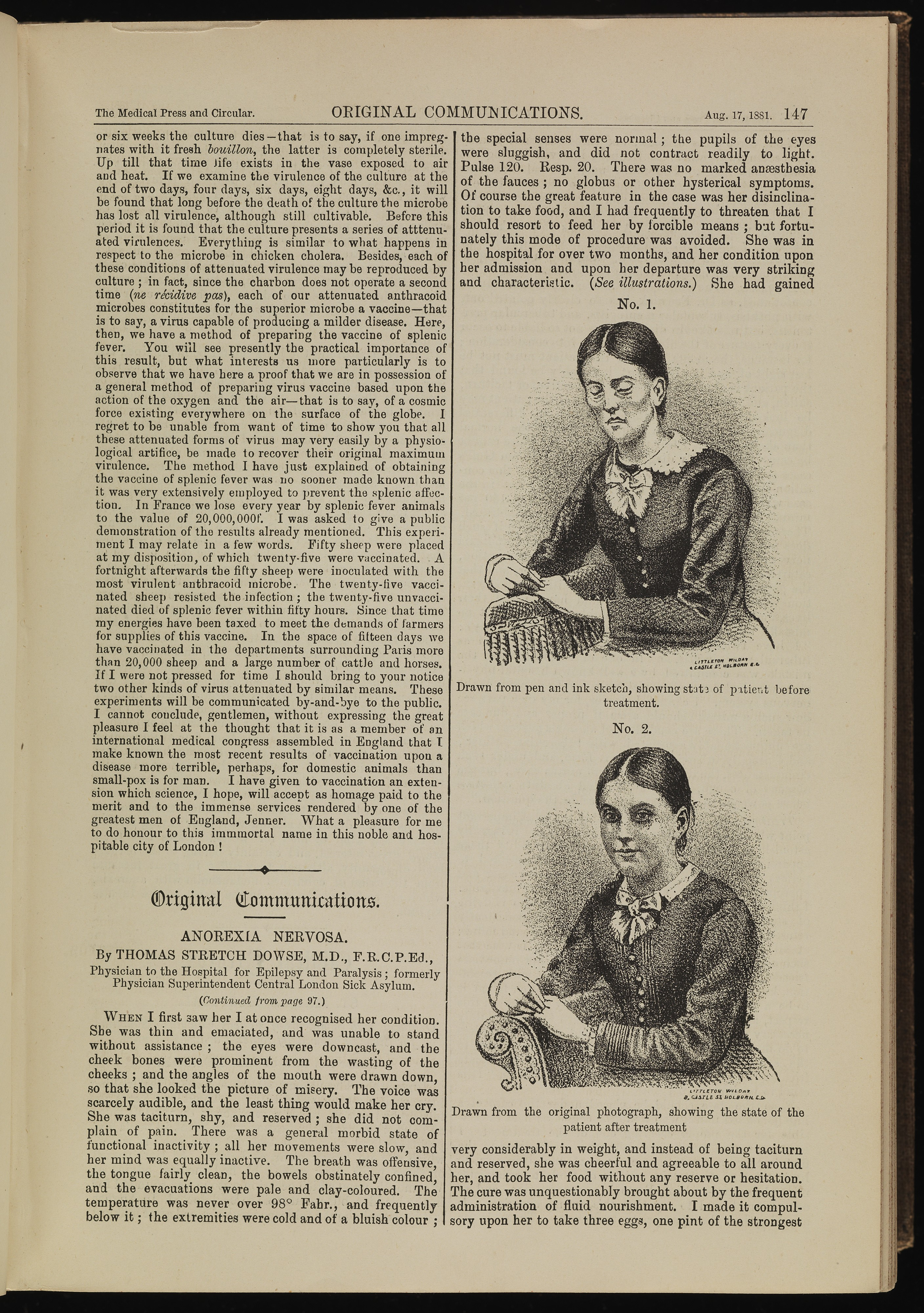 'Anorexia Nervosa' by Thomas Stretch Dowse, M.D., F.R.C.P. Ed. published in Medical Press and Circular. General Collections Keywords: Medicine